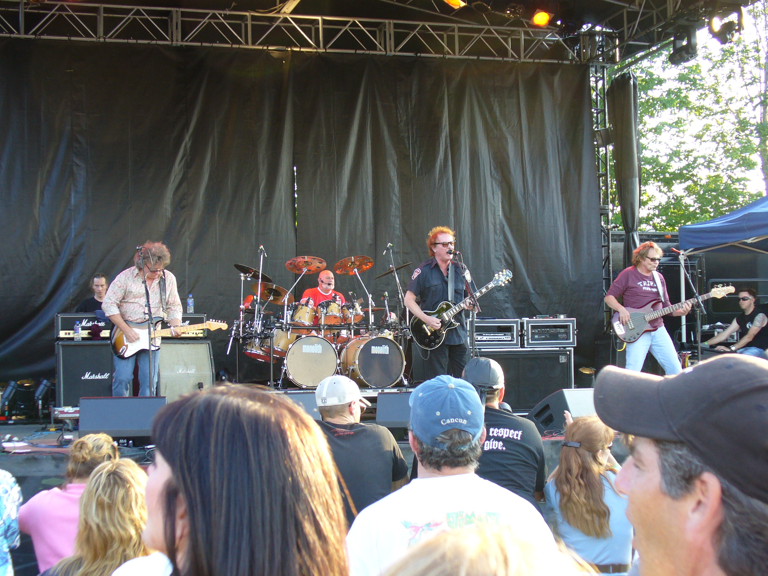 Canadian rock band April Wine in concert at the 2008 Fergus Truck Show